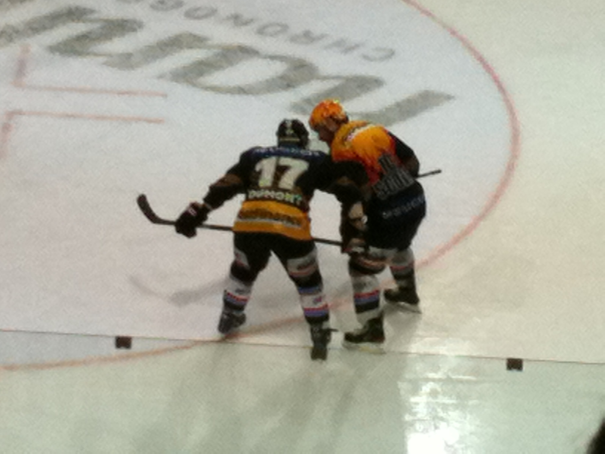 Jean-Pierre Dumont and Byron Ritchie playing for Swiss club SC Bern.